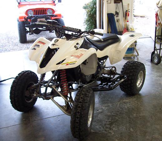 A 2004 Suzuki LT-Z400 (with custom modifications)